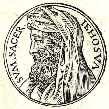 Joshua was, according to the Bible the first person chosen to be the High Priest for the reconstruction of the Jewish Temple after the return of the Jews from the Babylonian Captivity.